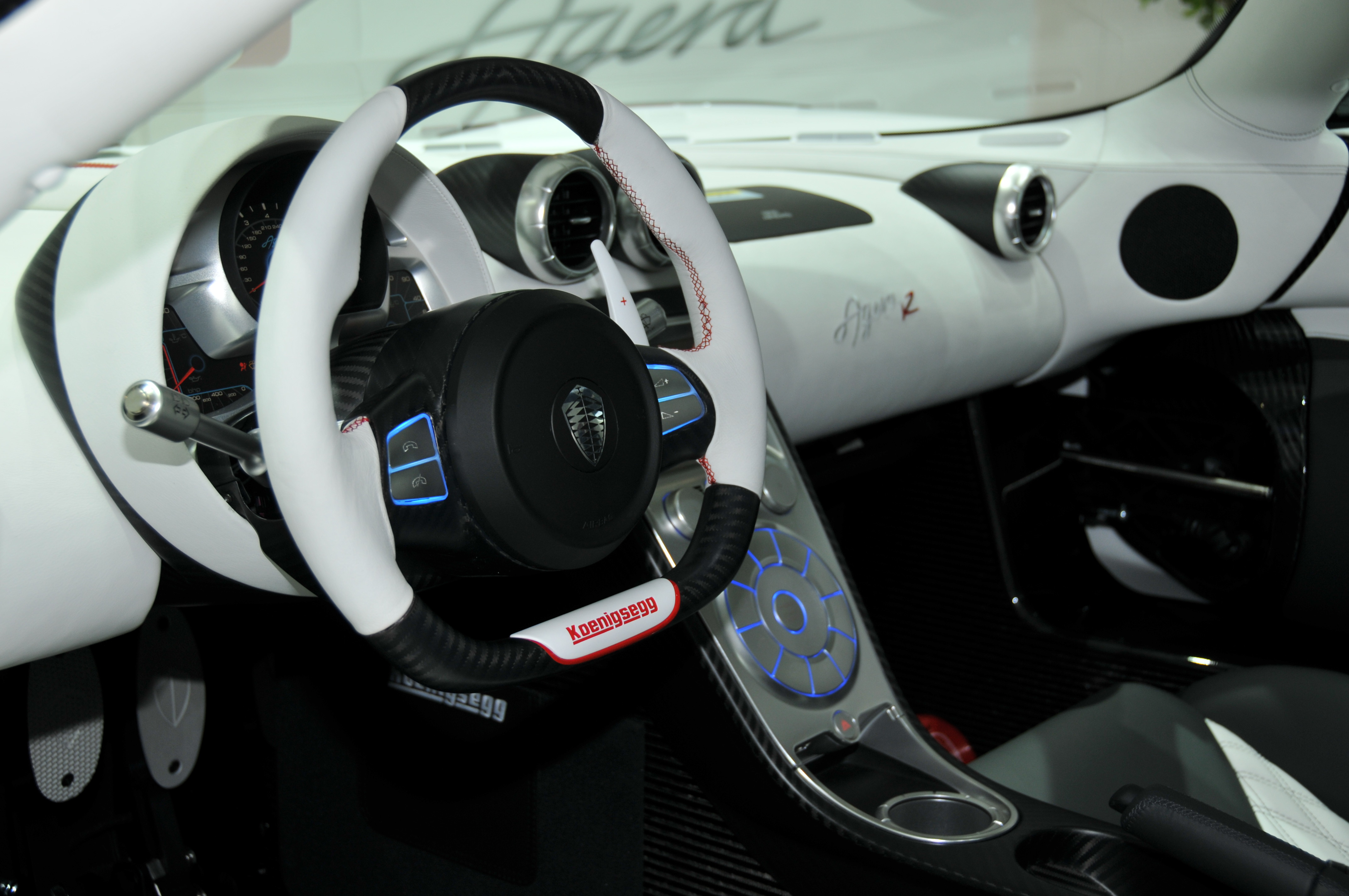 The Agera R was presented at the 2011 Geneva Motor Show